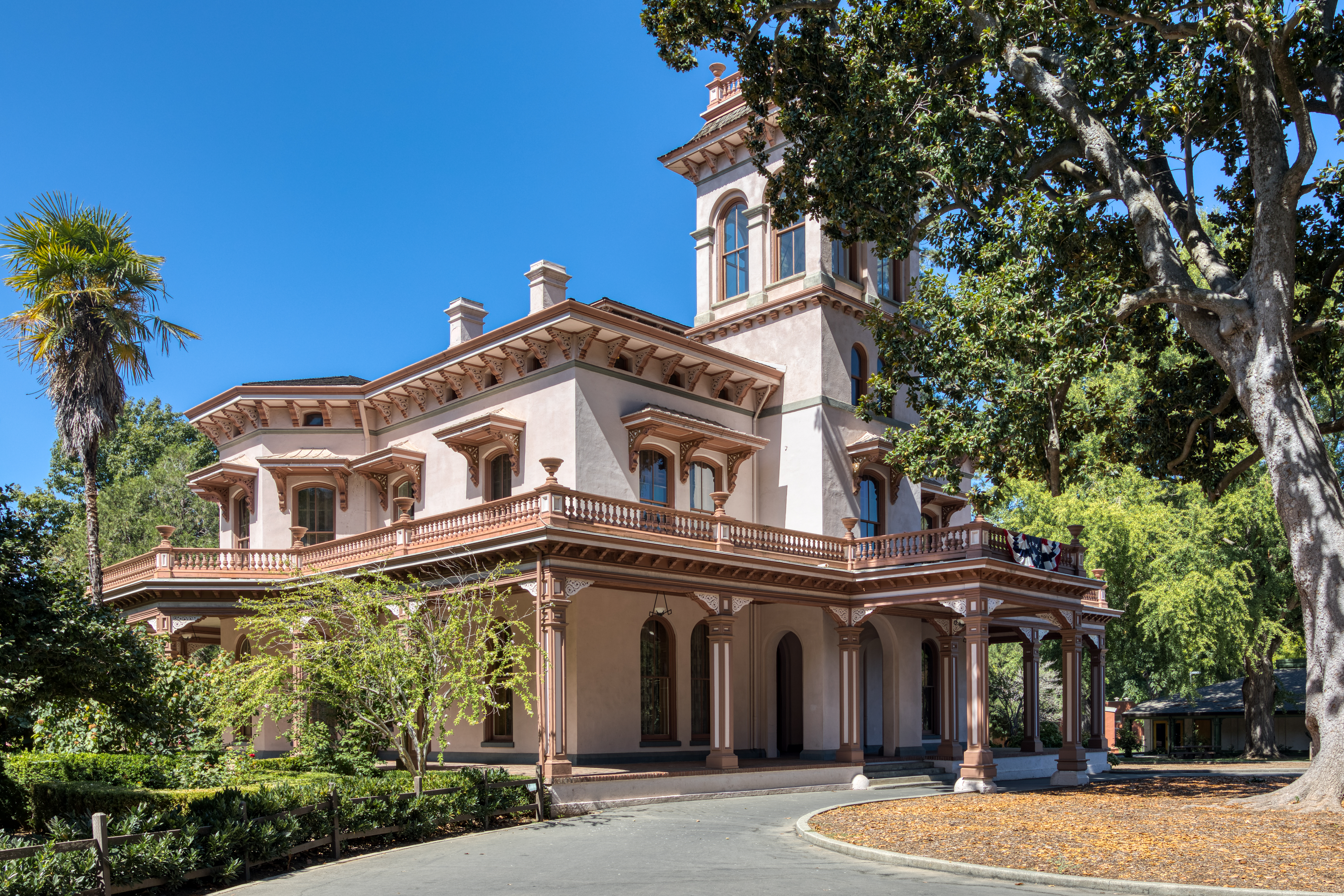 Bidwell Mansion, Chico, California, in September 2019